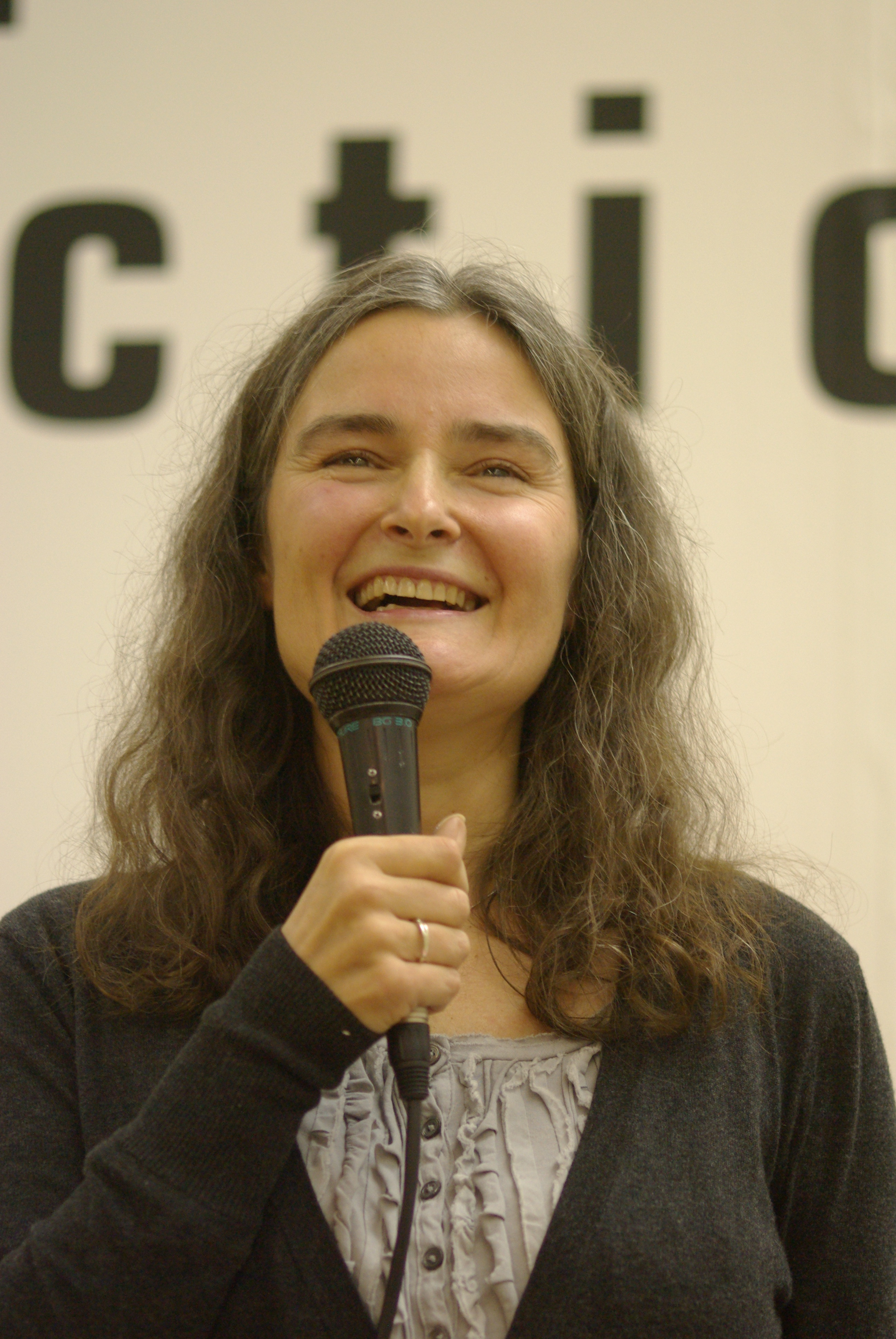 Russian poet Vera Pavlova at the 12 Moscow International Fair of Intelectual Books, Non-Fiction 2010